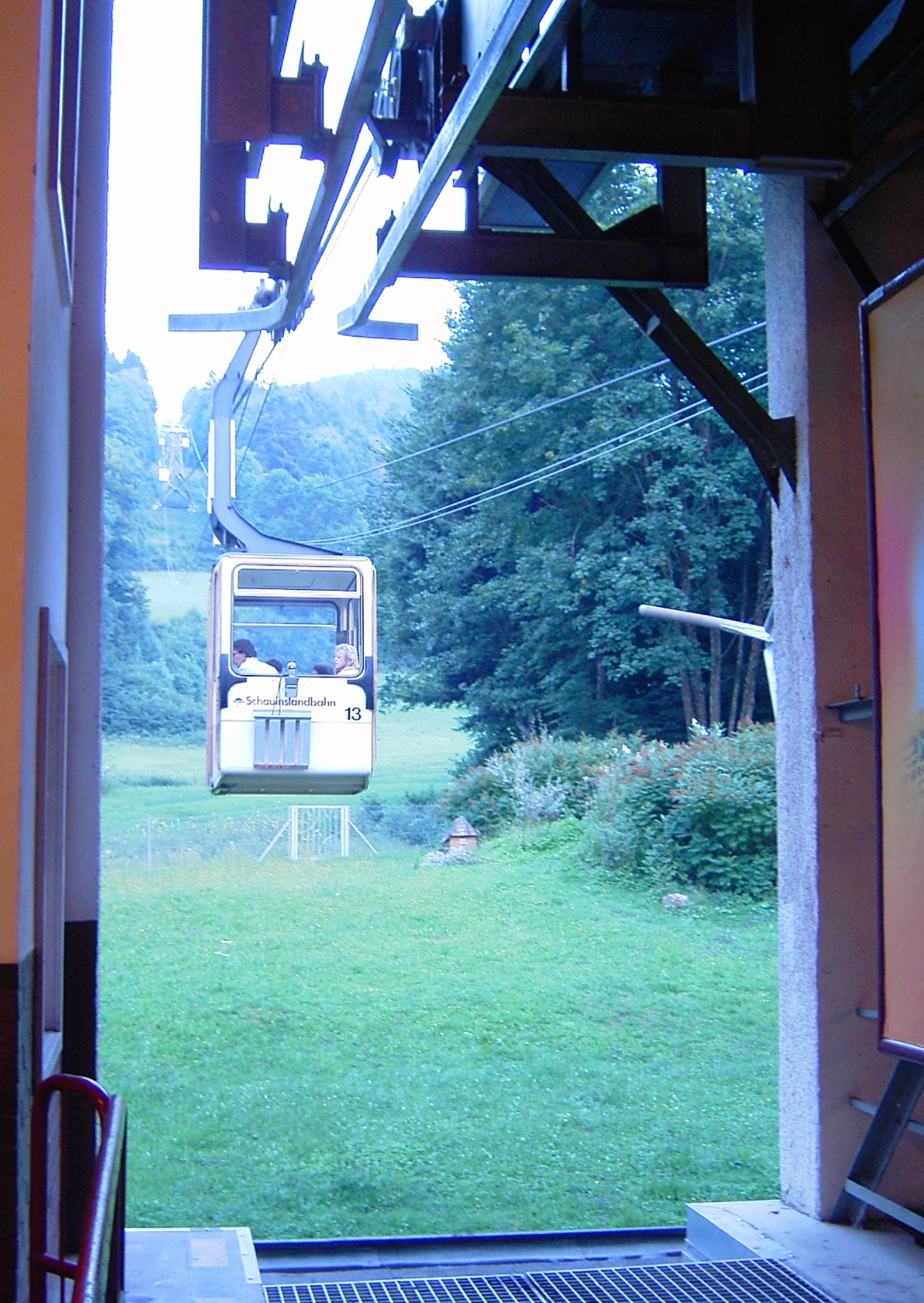 The Aerial tramway Schauinslandbahn at the valley